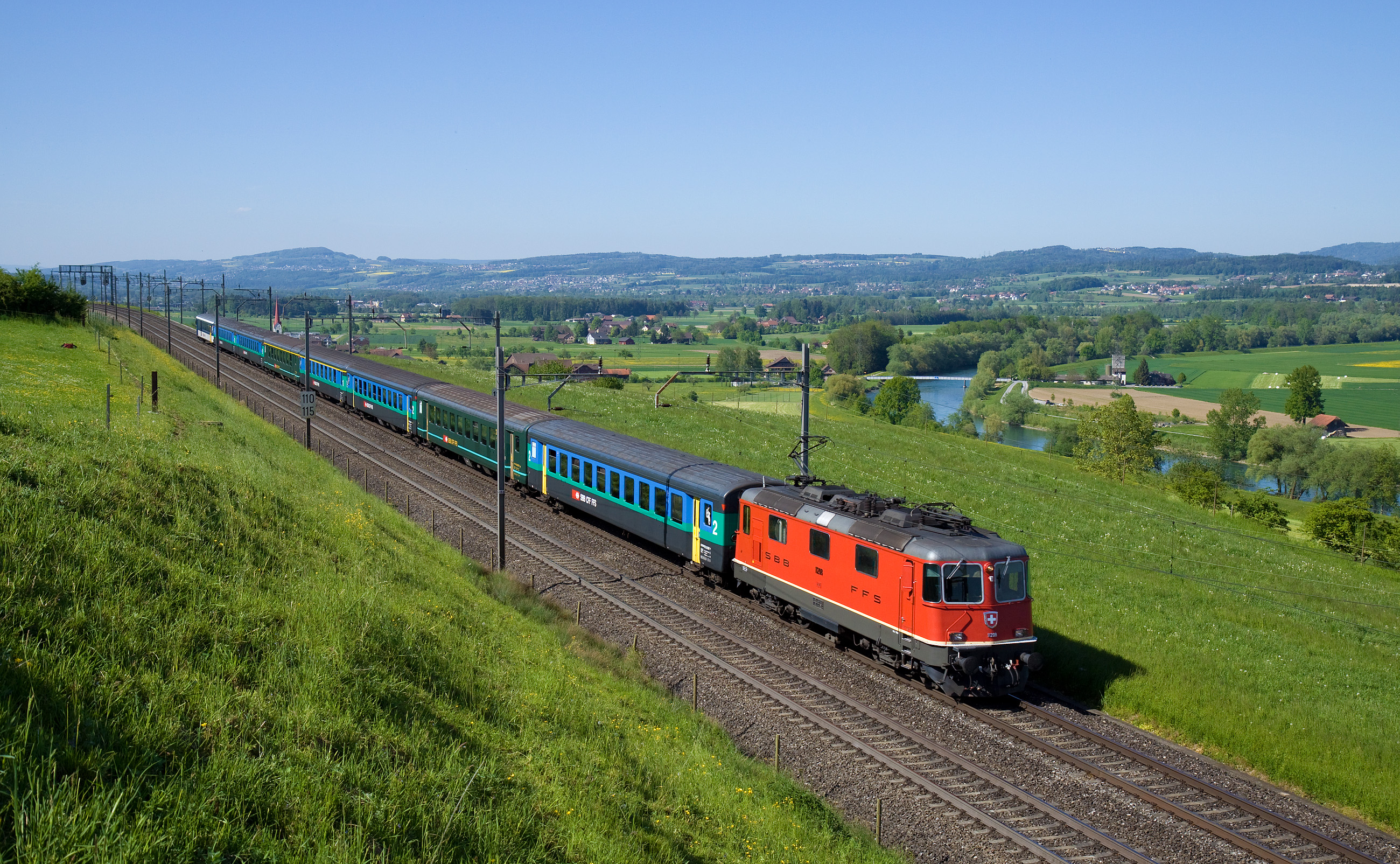 Re 420 with a spare consist running as a replacement for the hourly NPZ, between Mühlau and Sins